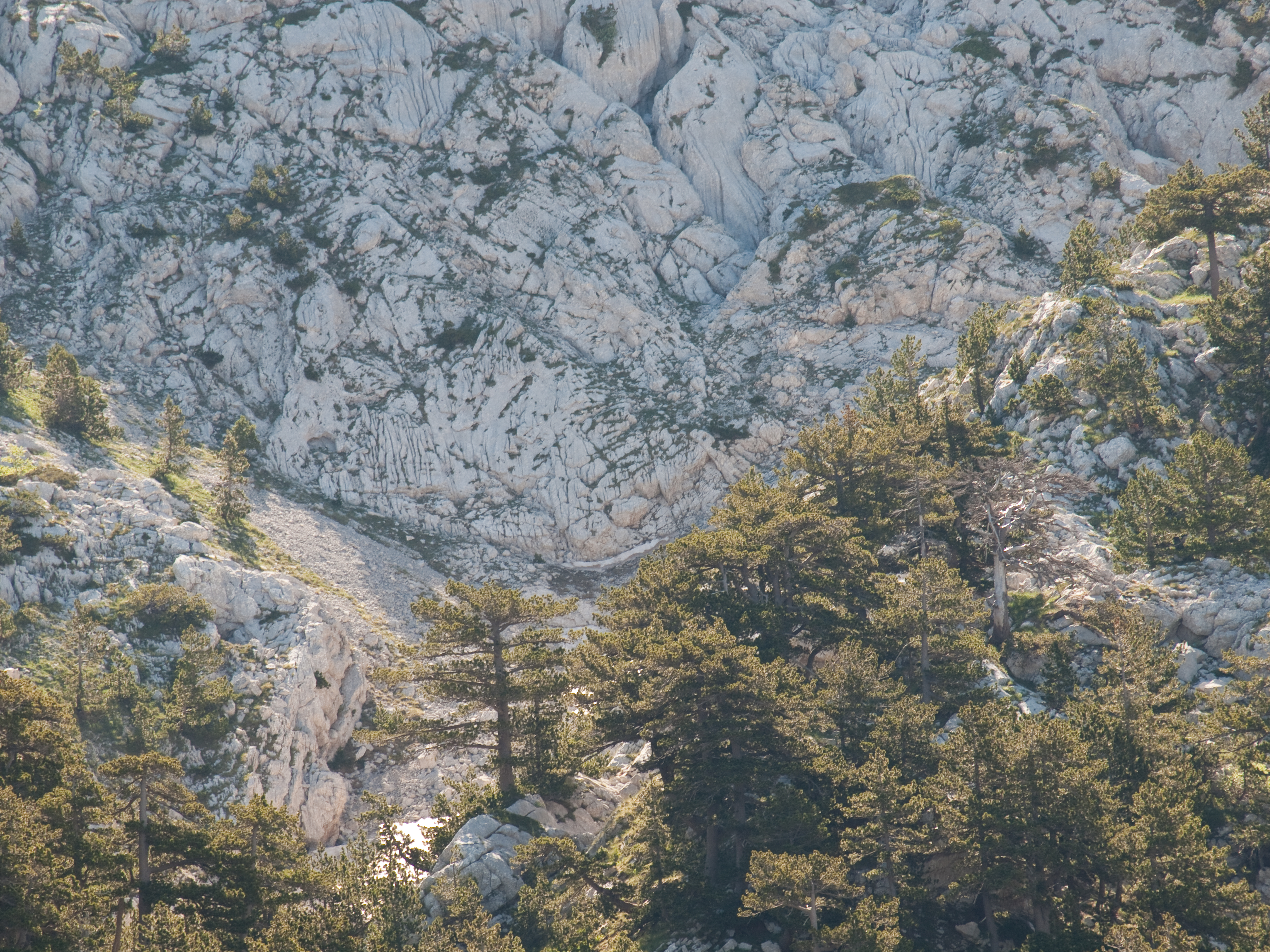 Avalanch trench, Zubacki kabao, Orjen